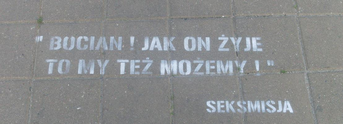 Quotation from polish film "Seksmisja". Painting at pavement Kościuszko Square in Gdynia. Promote Polish Film Festival in Gdynia.